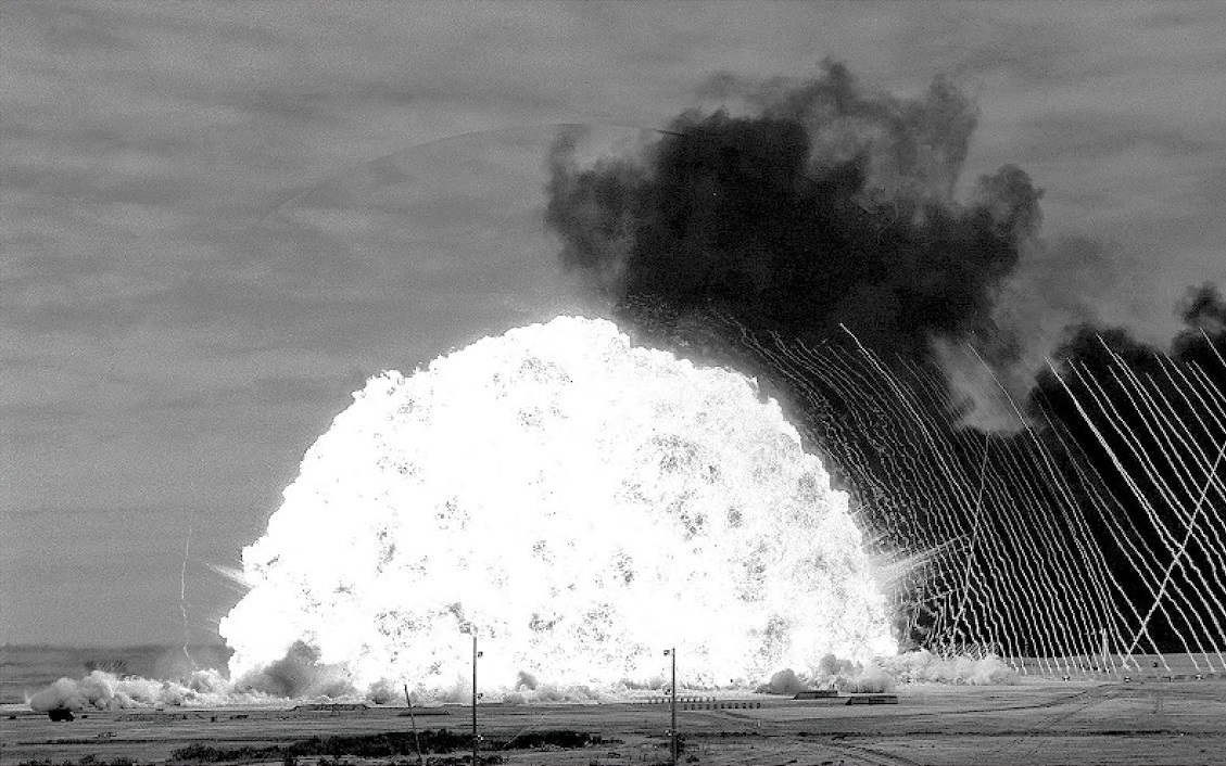 500 tons of TNT are detonated at Suffield Experimental Station, Alberta on July 17, 1964 as part of Operation Snowball.Black smoke in the background is from burning crude oil to produce a better background for contrast.